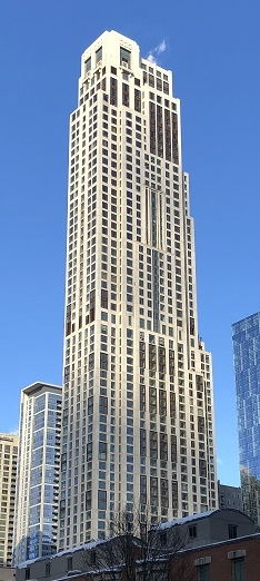 One Bennett Park is a 255 meter-tall residential skyscraper in Chicago, United States.